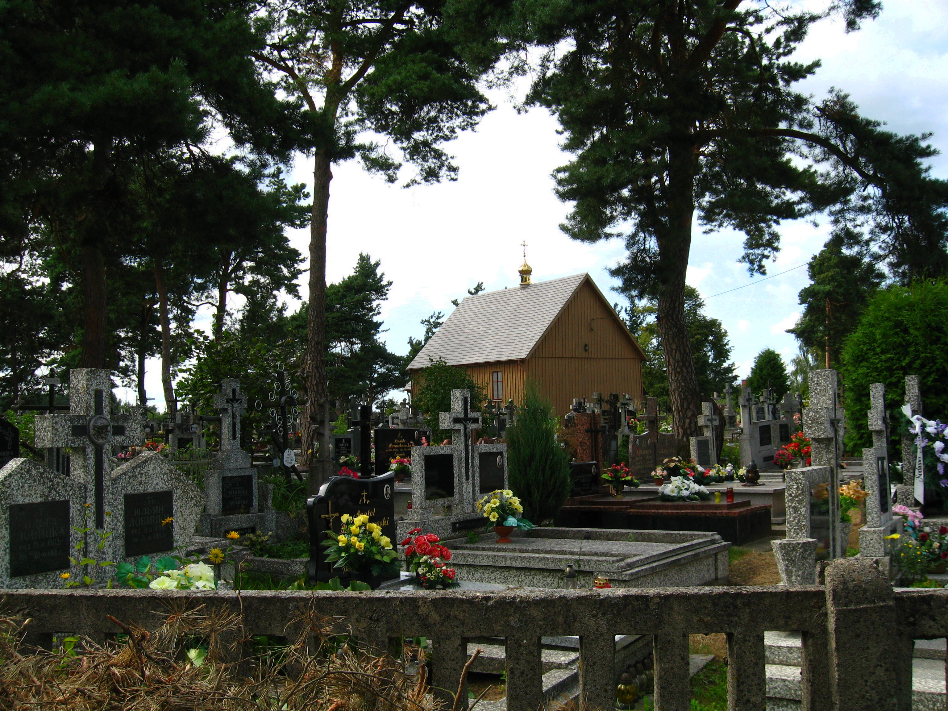 Eastern–orthodox chapel of the Our Lady's Care at parish cemetery in Gródek village